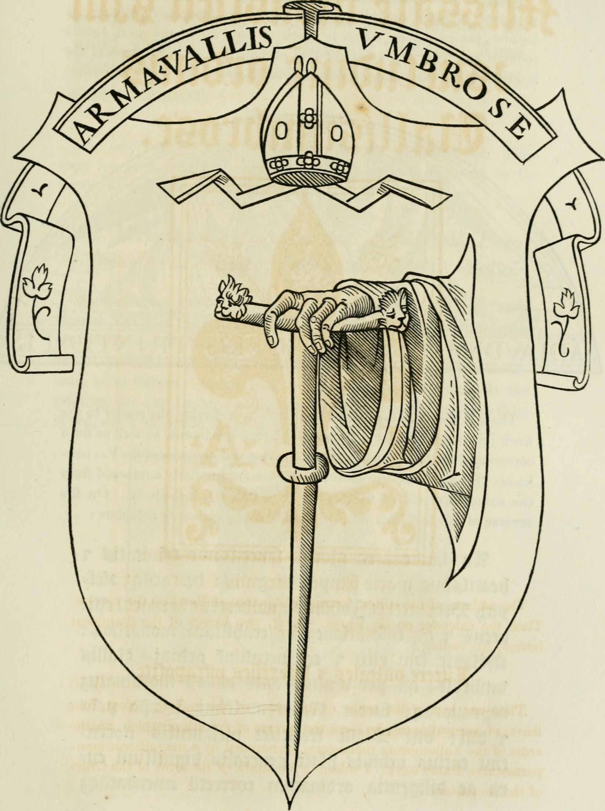 Title: Aedes Althorpianae; or, Account of the mansion, books, and pictures, at Althorp; the residence of George John, earl Spencer, K.G. To which is added a supplement to the Bibliotheca Spenceriana Year: 1822 (1820s) Authors: Spencer, George John Spencer, Earl, 1758-1834 Dibdin, Thomas Frognall, 1776-1847 Subjects: Althorp (Northampton, Northamptonshire) Rare books Incunabula Publisher: London : Printed by W. Nicol, Shakespeare Press (etc.) Text Appearing Before Image: The address of the editor, Petrus Albignanus, follows on the reverse.Then the calendar on six leaves. Next, two leaves of the dominicalletters, &c. ending: %ittctt tiBicak^ i fiifc^etilcisf Mrapofite Then one leaf of the table of the order of the missal. Next, fourleaves of musical notes, &c.—on the reverse of the 4th of which, are thearms of the Vallombrosa monastery, surrounded by a magnificent com-partment or frame work. I submit a fac-simile of the arms of the Orderof the monastery. MISCELLANEOUS. 199 Text Appearing After Image: 200 MISCELLANEOUS. The text of the missul follows on the opposite page, within a com-pailnuiit of eipuil magnificence to tluit of the foregoing; having, atbottom, the ornament Avhich is given at page 84 of the work beforereferred to. The upper part of this ornament, as far as respects thefigures, is well deserving of a fac-simde, thus—